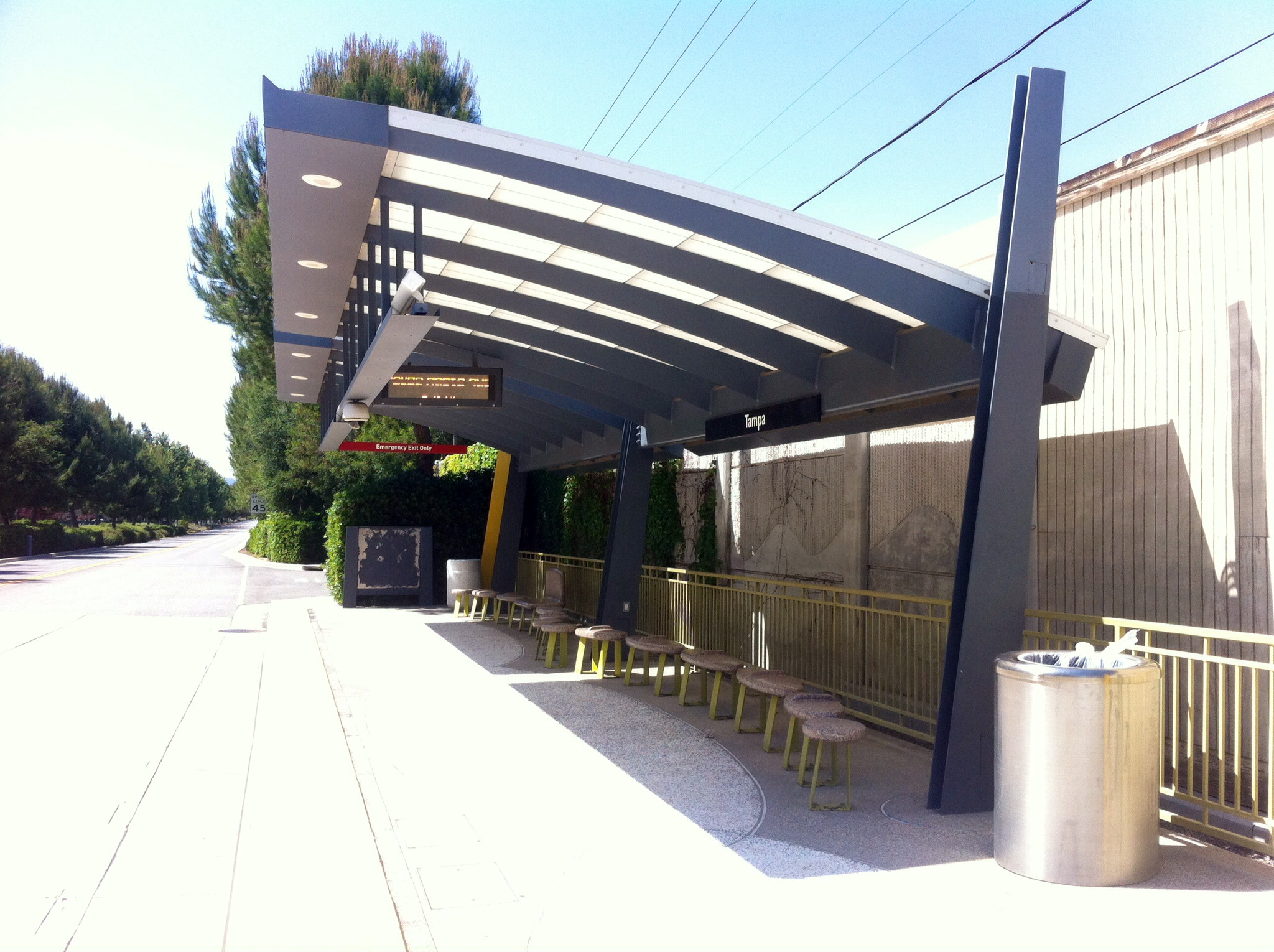 The platform view of Tampa Station.